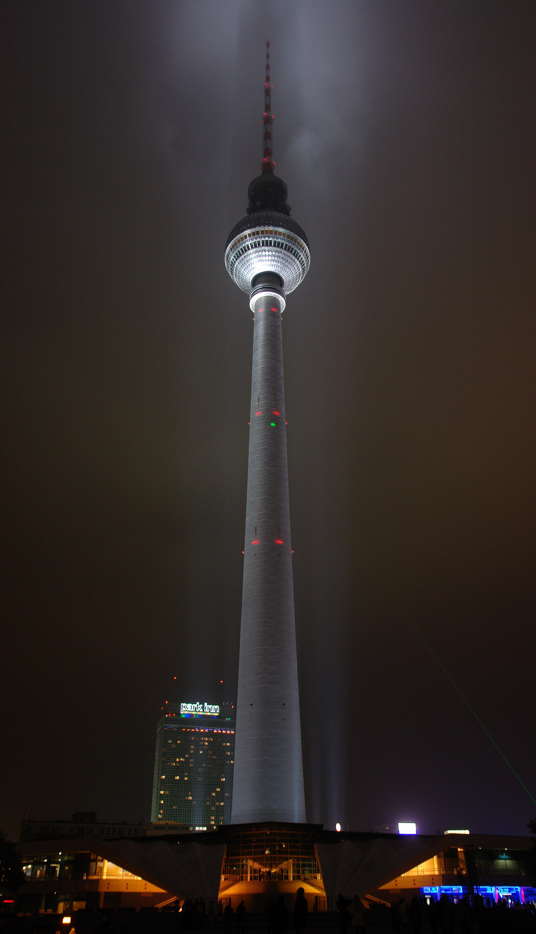 Fernsehturm Berlin during the Festival of Lights.